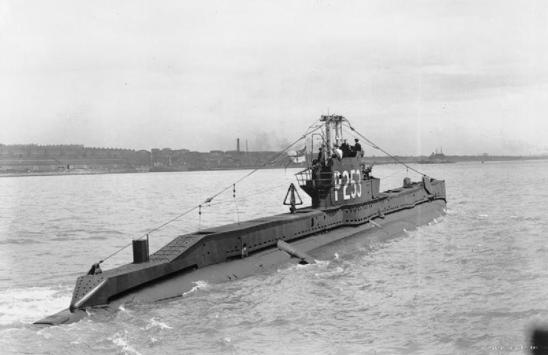 British S class submarine HMS SEA SCOUT underway.